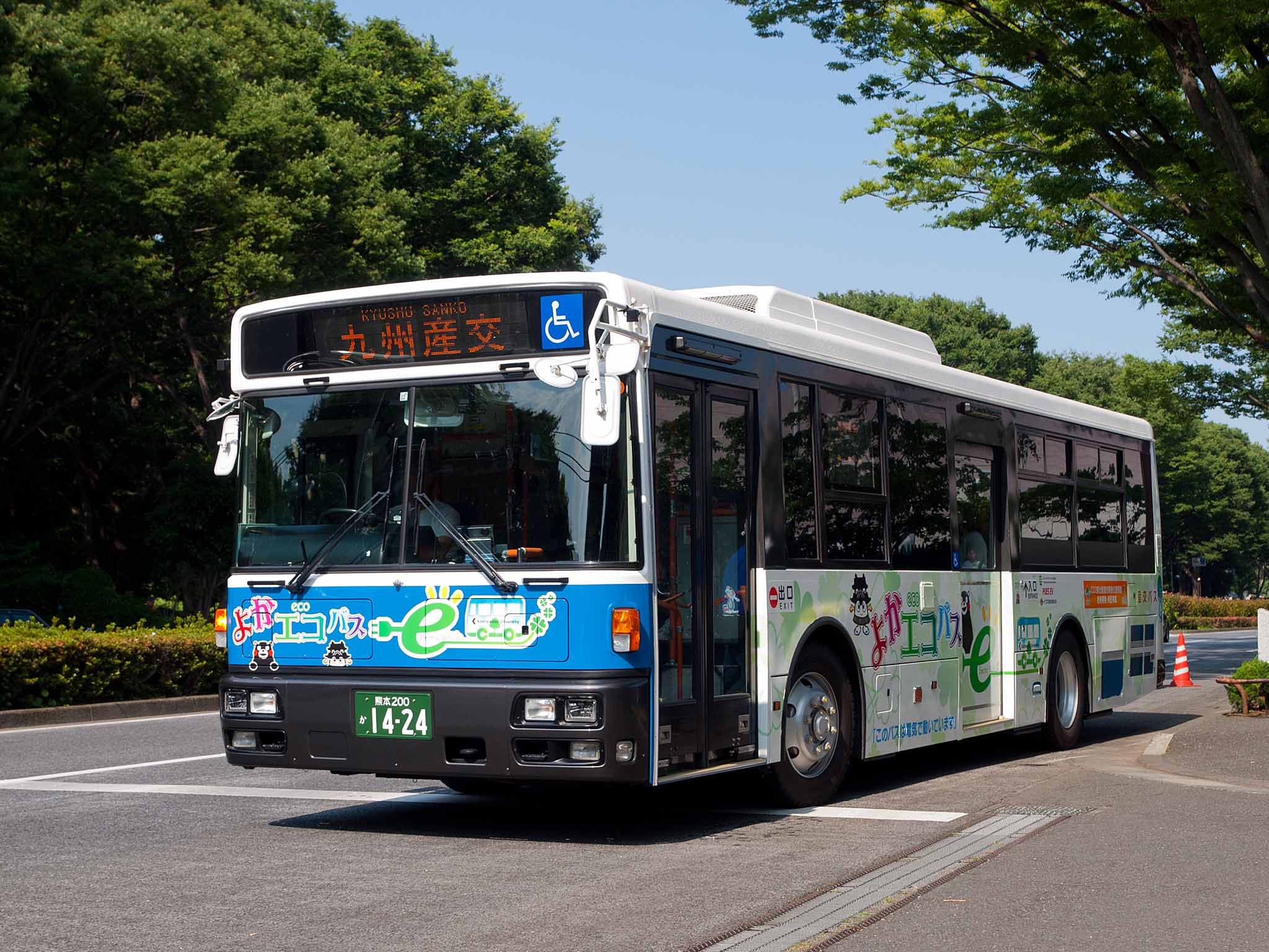 Fleet of Kyushu Sanko Bus, converted battery powered electric bus, named Yoka Eco Bus. Model: Nissan Diesel Space Runner ADG-RA273KAN Customize: Izumi Body License plate: KMK200 KA1424 ex. TKN200 KA1440 (Seibu Bus A5-98) Place: Yoyogi Park, Shibuya Ward, Tokyo Japan Demonstrated at Eco Life Fair 2018